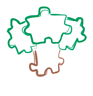 a tree